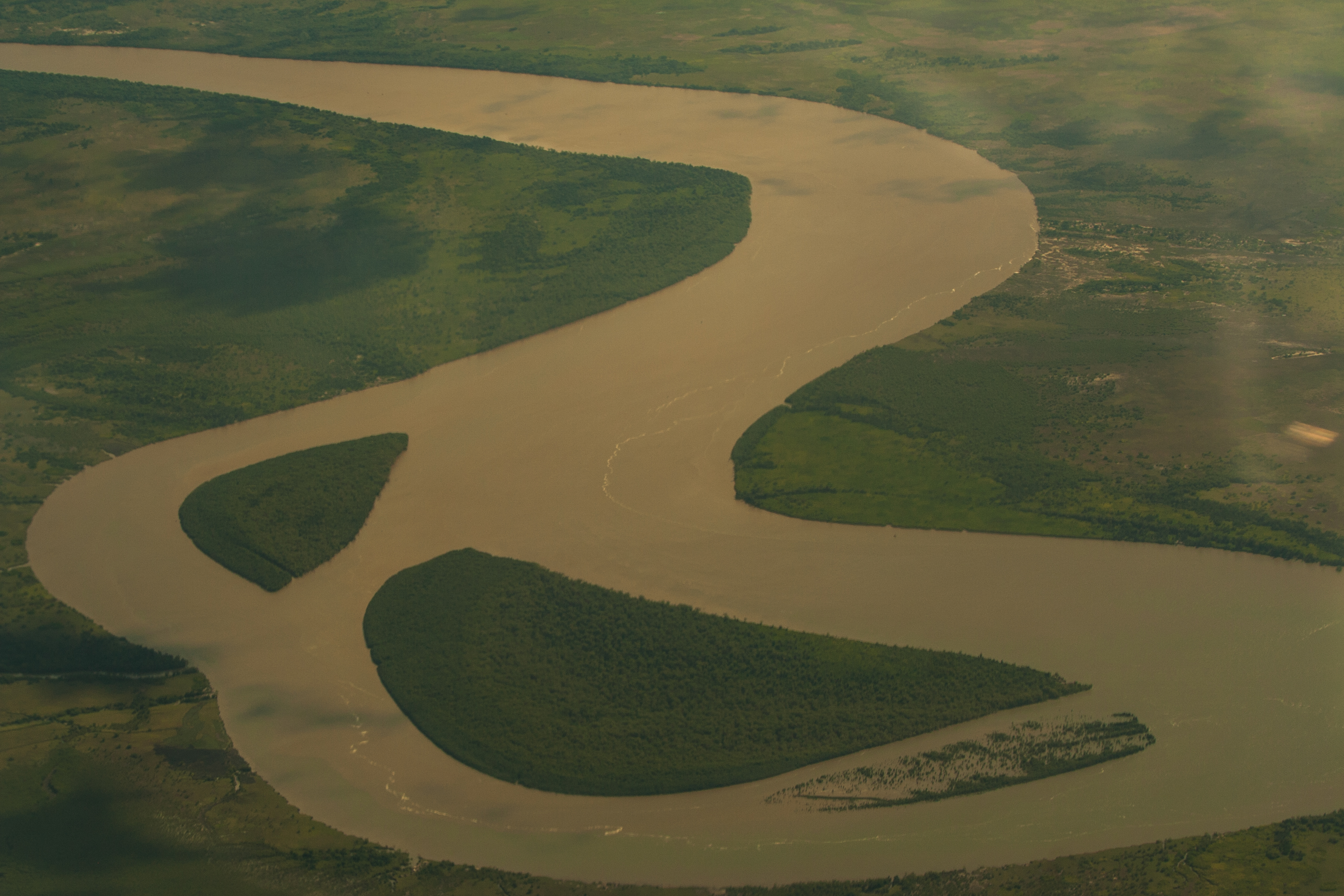 Púnguè river Flowing down to Beira